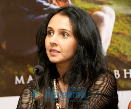 Suchitra Krishnamoorthi launches Manjiri Prabhu's new novel 'The Shadow of Inheritance'